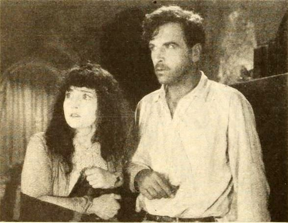 Still from the American silent film At the End of the World (1921) with Betty Compson and Milton Sills, page 60 of the November Photoplay.